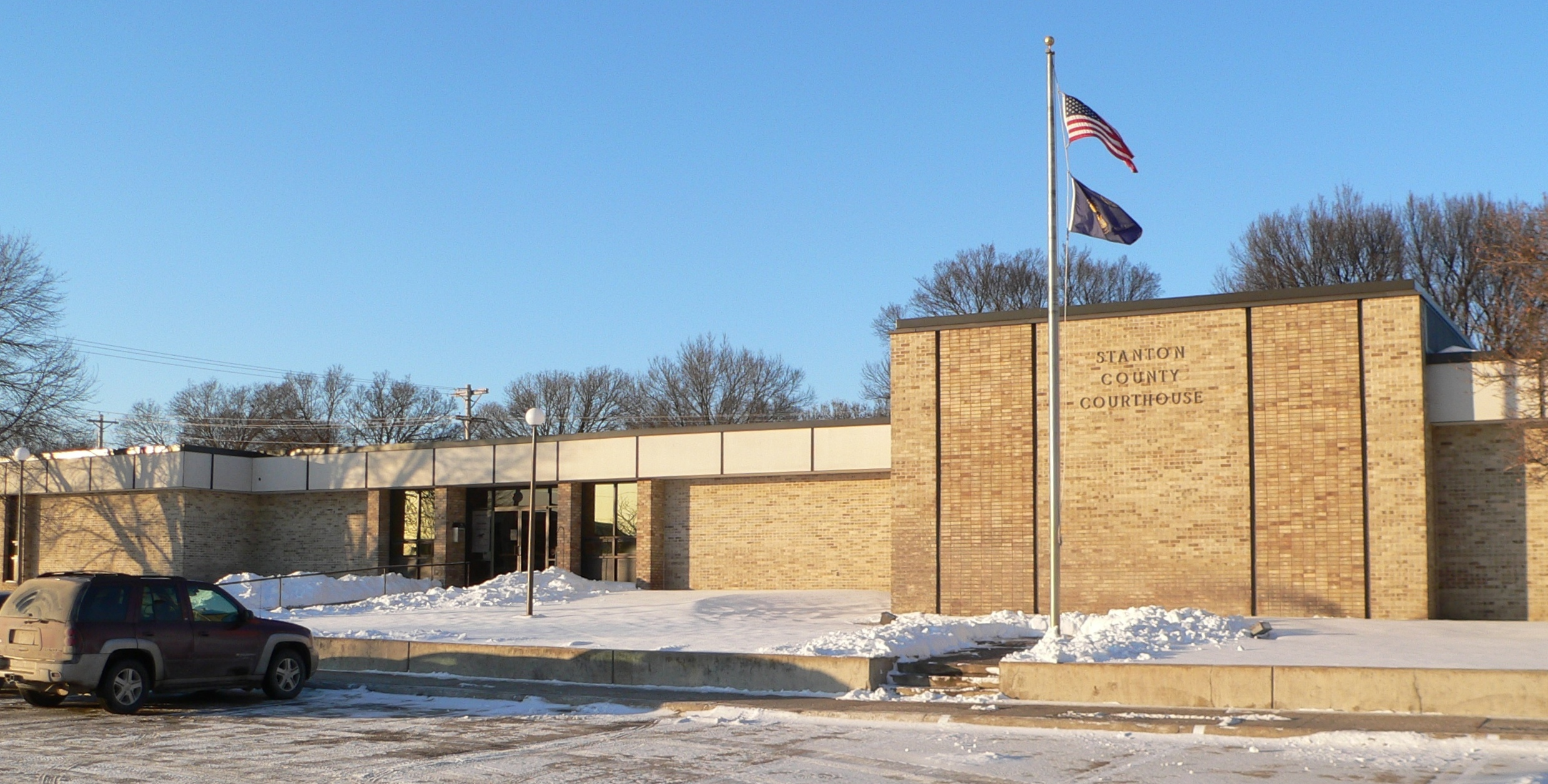 Stanton County Courthouse in Stanton, Nebraska; seen from the south. The building was designed by architect Everett J. Simpson and constructed in 1976.